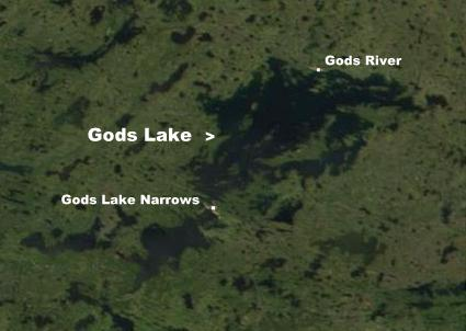 Gods Lake in Manitoba, Canada from a portion of a NASA image titled "lakes of the Manitoba Province, Canada". (captions have been added by Kayoty)